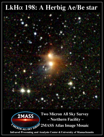 JSO in L 1265